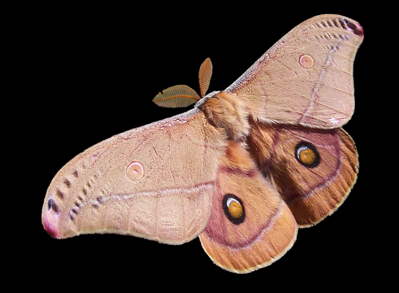 Opodiphthera helena